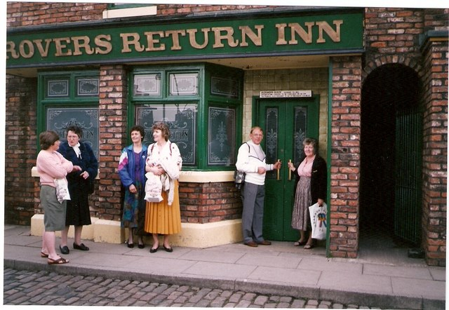 The Rovers Return, Coronation Street Taken during a tour in 1991